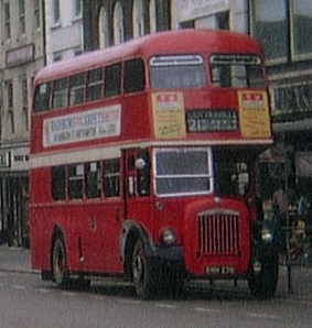 Northampton Corporation bus, a Daimler CVG6 double-decker with Roe bodywork, pictured in Northampton, Northamptonshire.